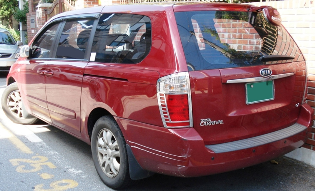 Kia Grand Carnival